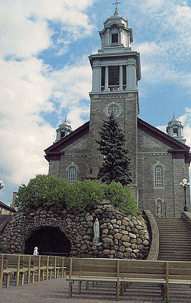 Mont-Joli